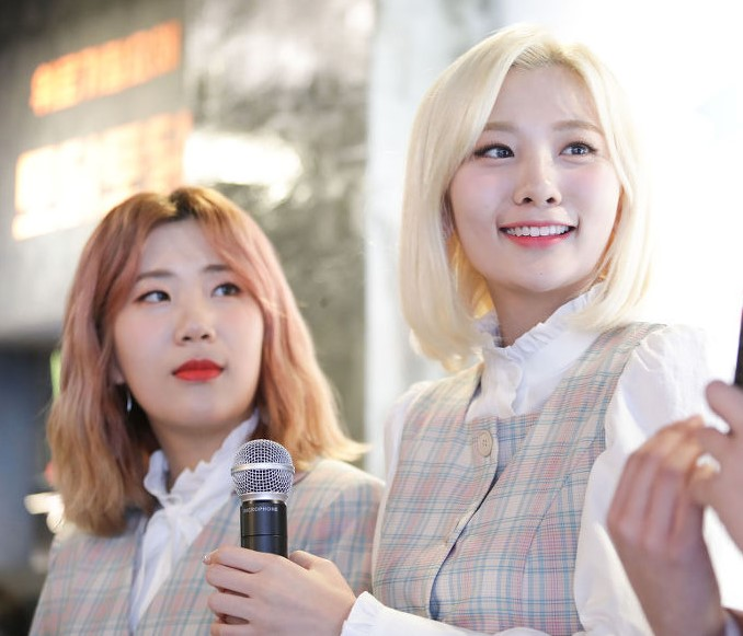 Bolbbalgan4 at a fansinging on March 6, 2018